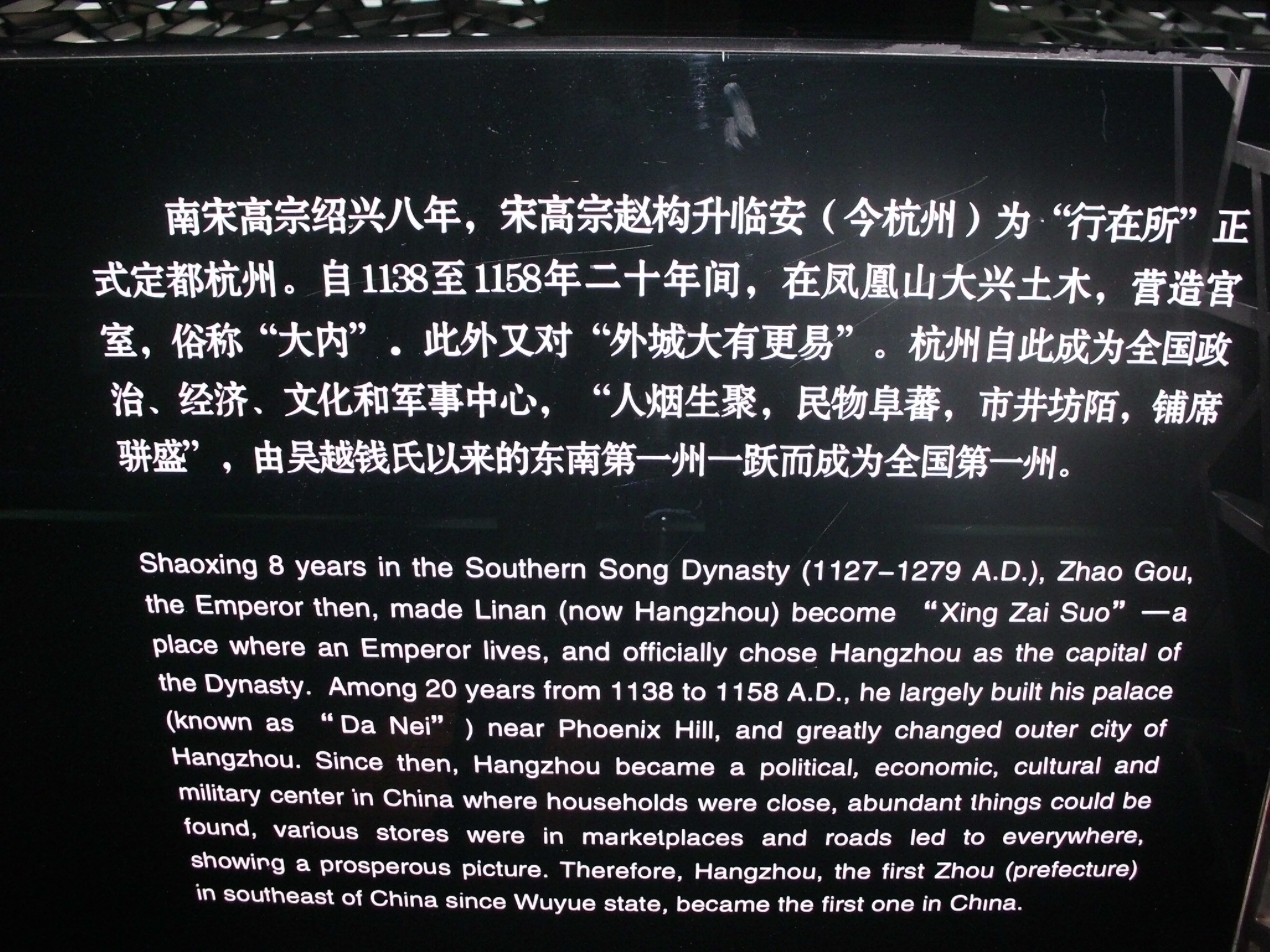 Hangzhou Urban Planning Exhibition Hall